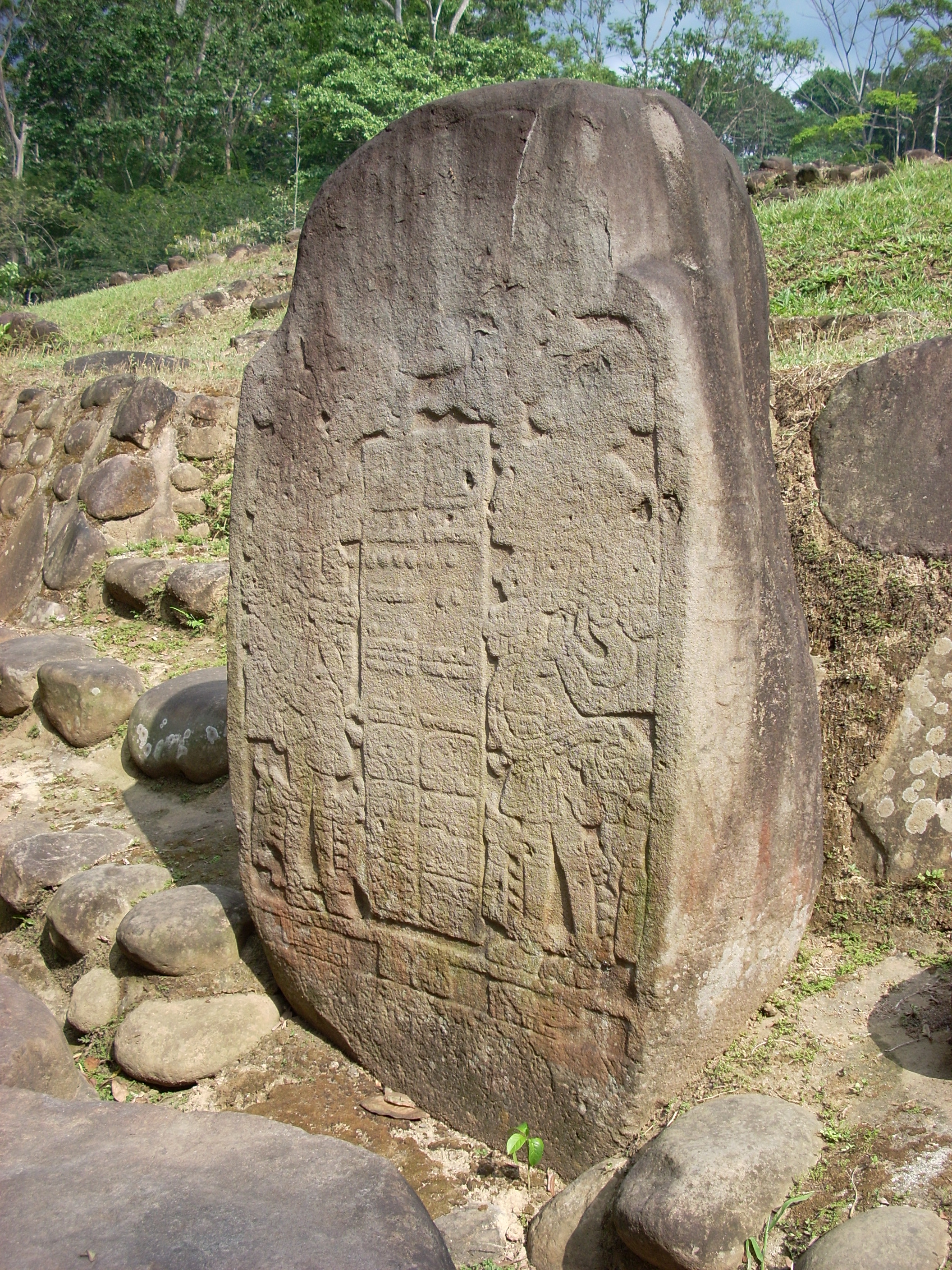 Stela 5 at Takalik Abaj, El Asintal, Retalhuleu, Guatemala, showing an early example of a Long Count date.